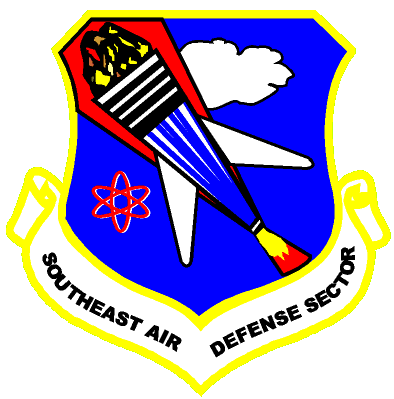 Unit Logo